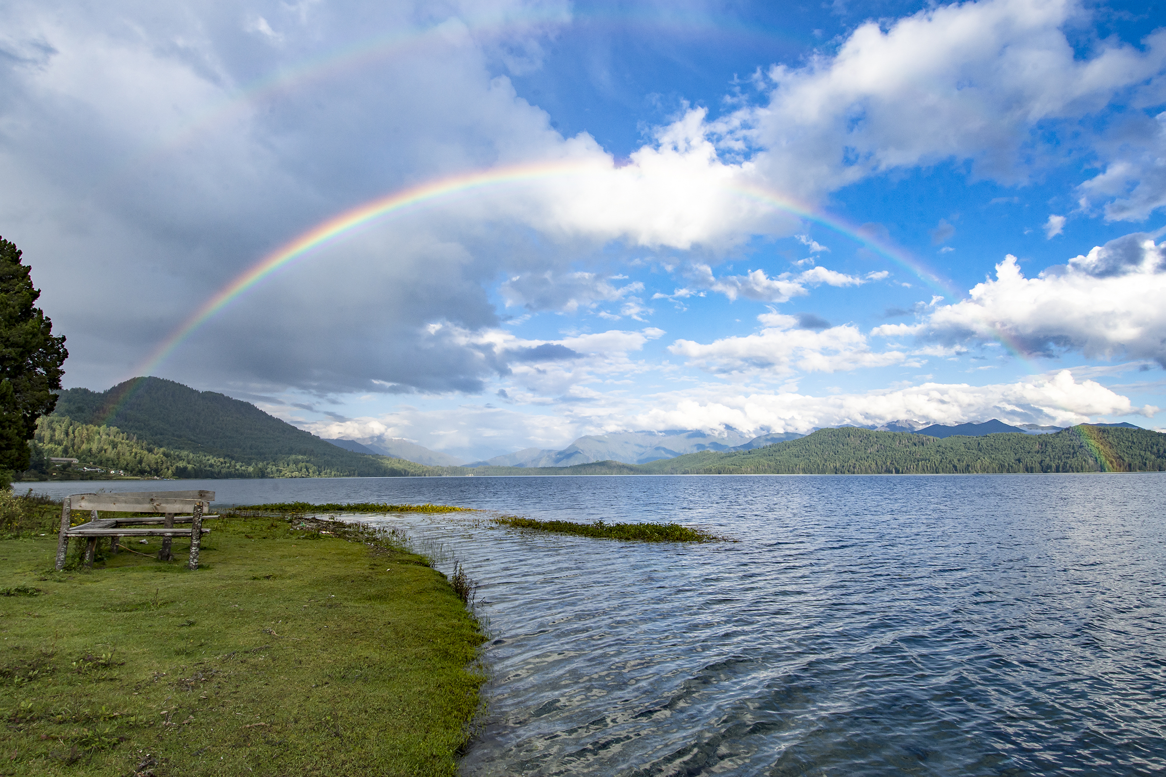 Rara Lake looks much beautiful when Rainbow meets with it.